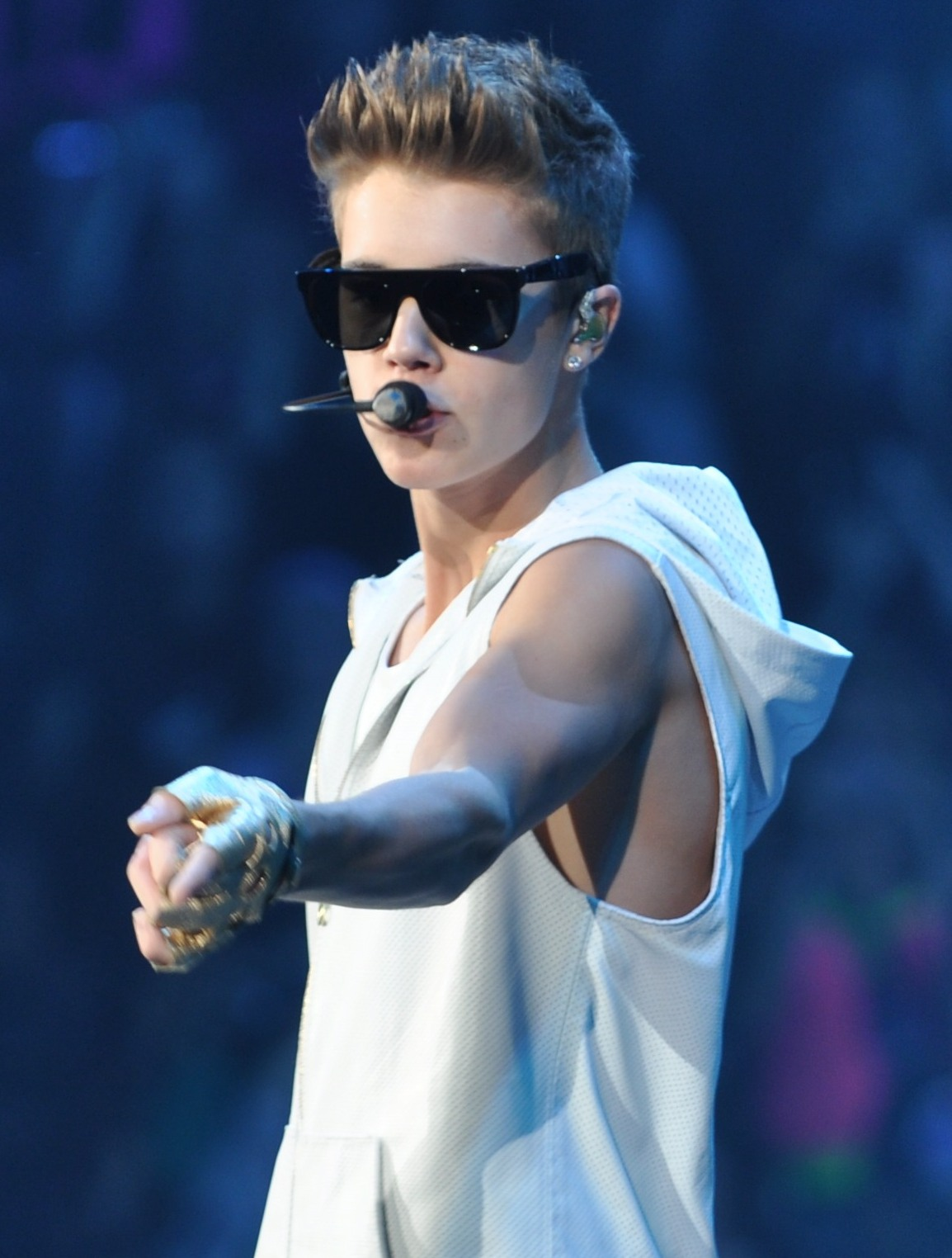 Justin Bieber performing Believe Tour in October 20, 2012.